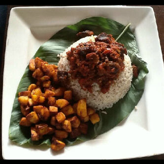 ofada rise with fried plantain and beaf This is an image of food from Nigeria